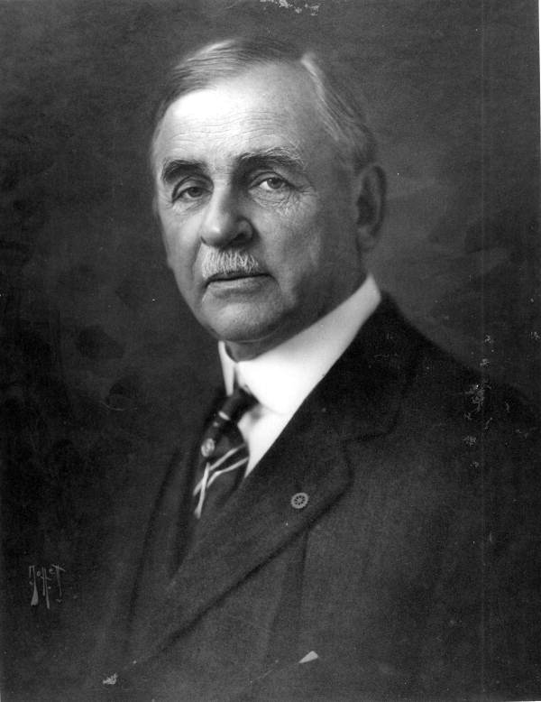 Portrait of Supreme Court Justice Jefferson B. Browne -Florida. Supreme Court Justice (1917-1925)